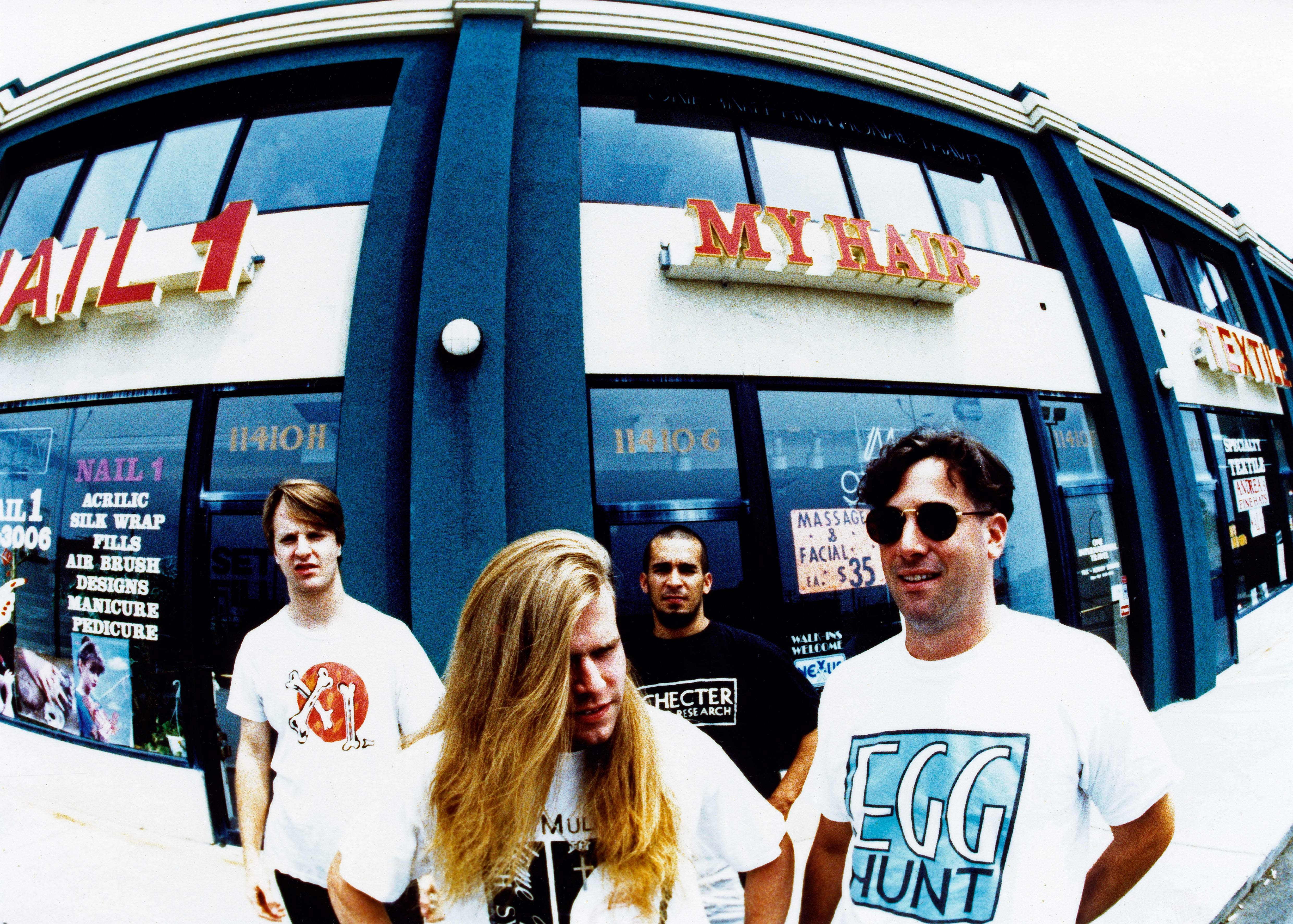 Promo image of Sorry About Your Daughter.